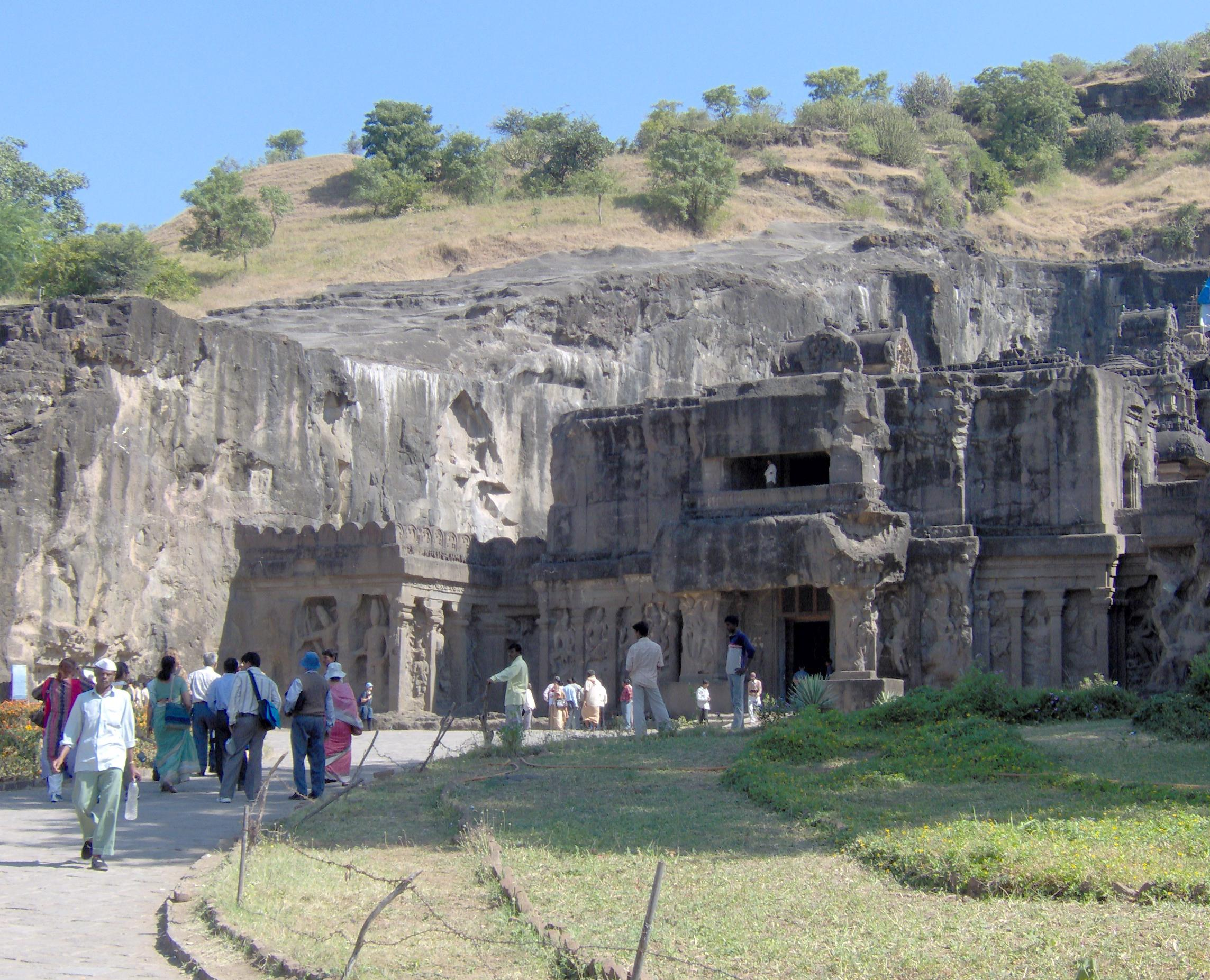 The grand entrance to the Kailash temple (cave 16), Ellora, Maharashtra. QuartierLatin1968 06:01, 12 December 2005 (UTC)